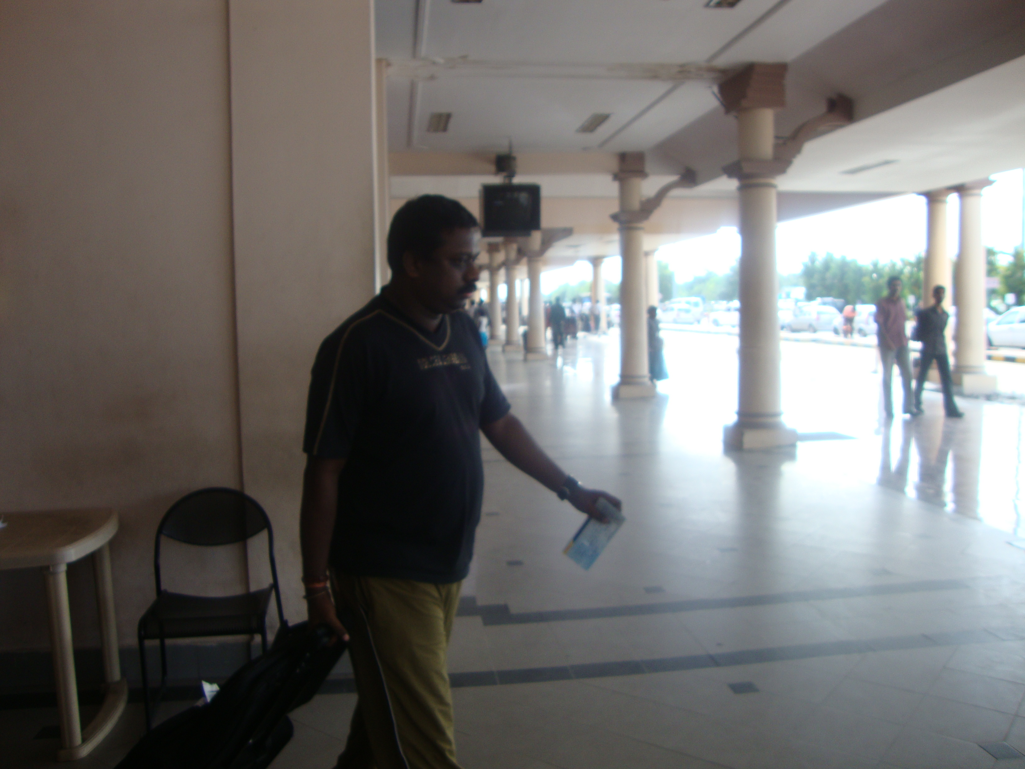 Jassie Gift leaving Nedumbassery Airport, Kerala.